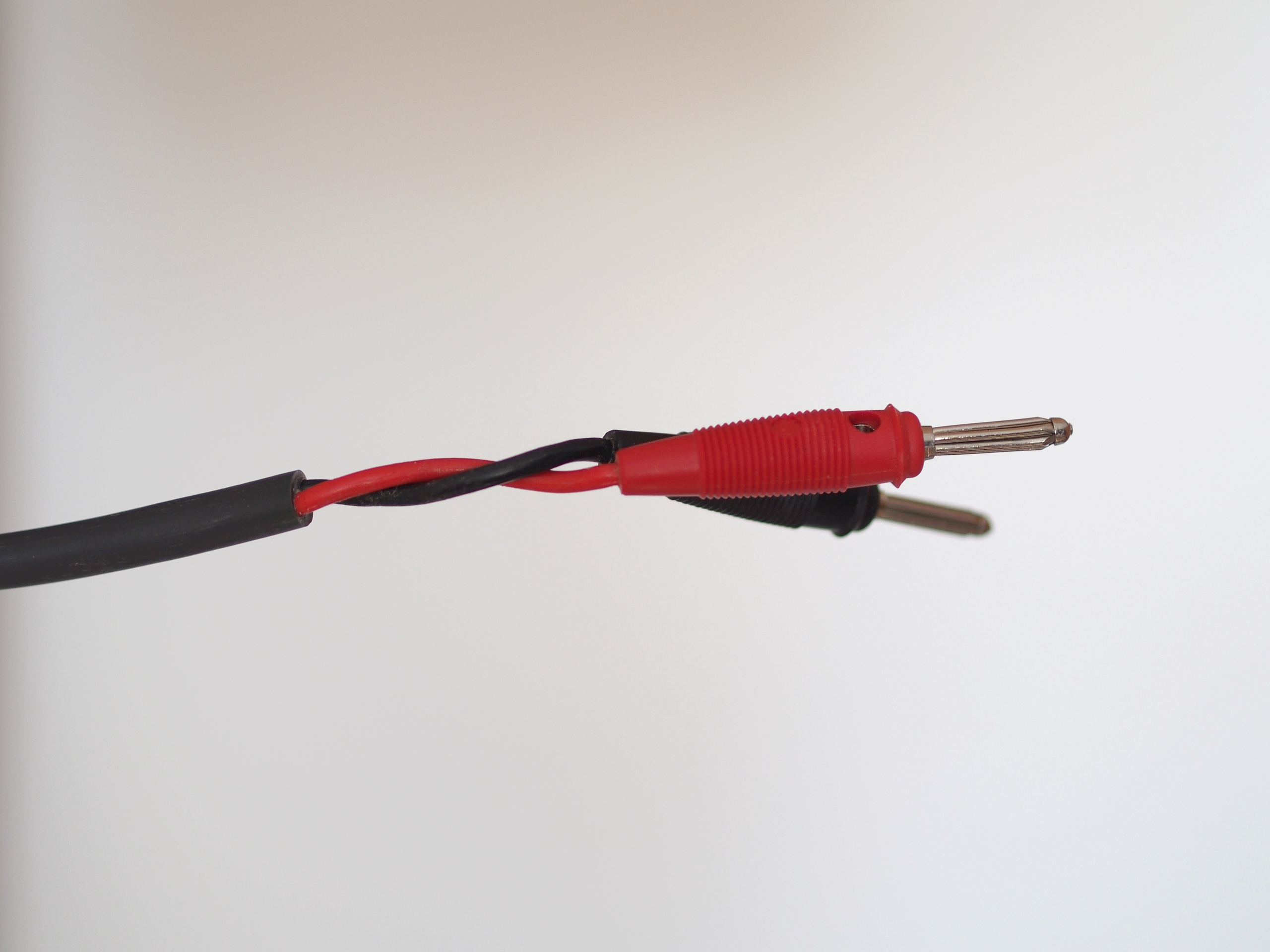 Professional speaker cable with banana connectors